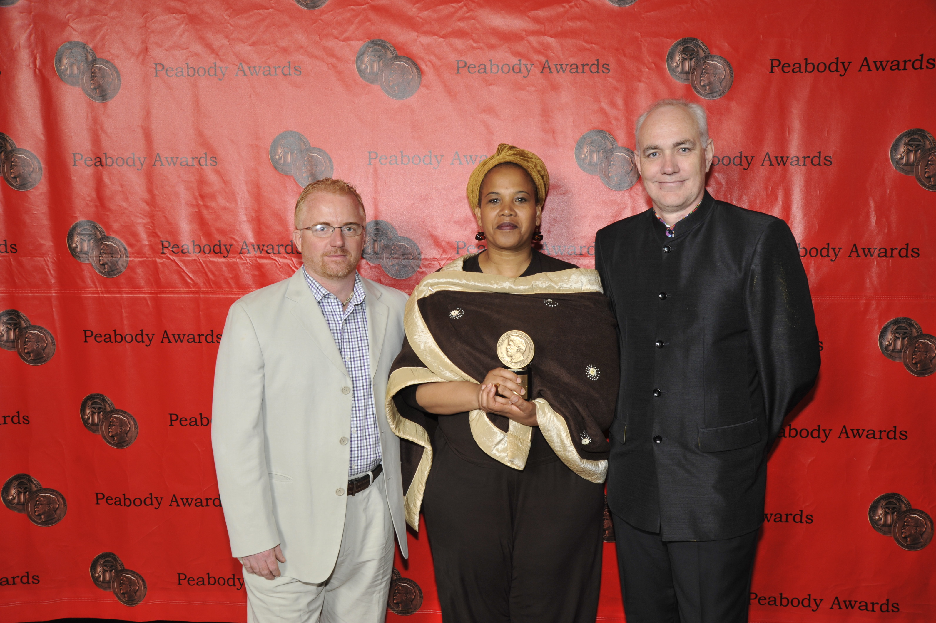 PHOTO CREDIT: ANDERS KRUSBERG / PEABODY AWARDS Jezza Neumann, Xoliswa Sithole and Brain Woods with the award for Zimbabwe's Forgotten Children 70th Annual Peabody Awards Luncheon Waldorf=Astoria Hotel May 23, 2011